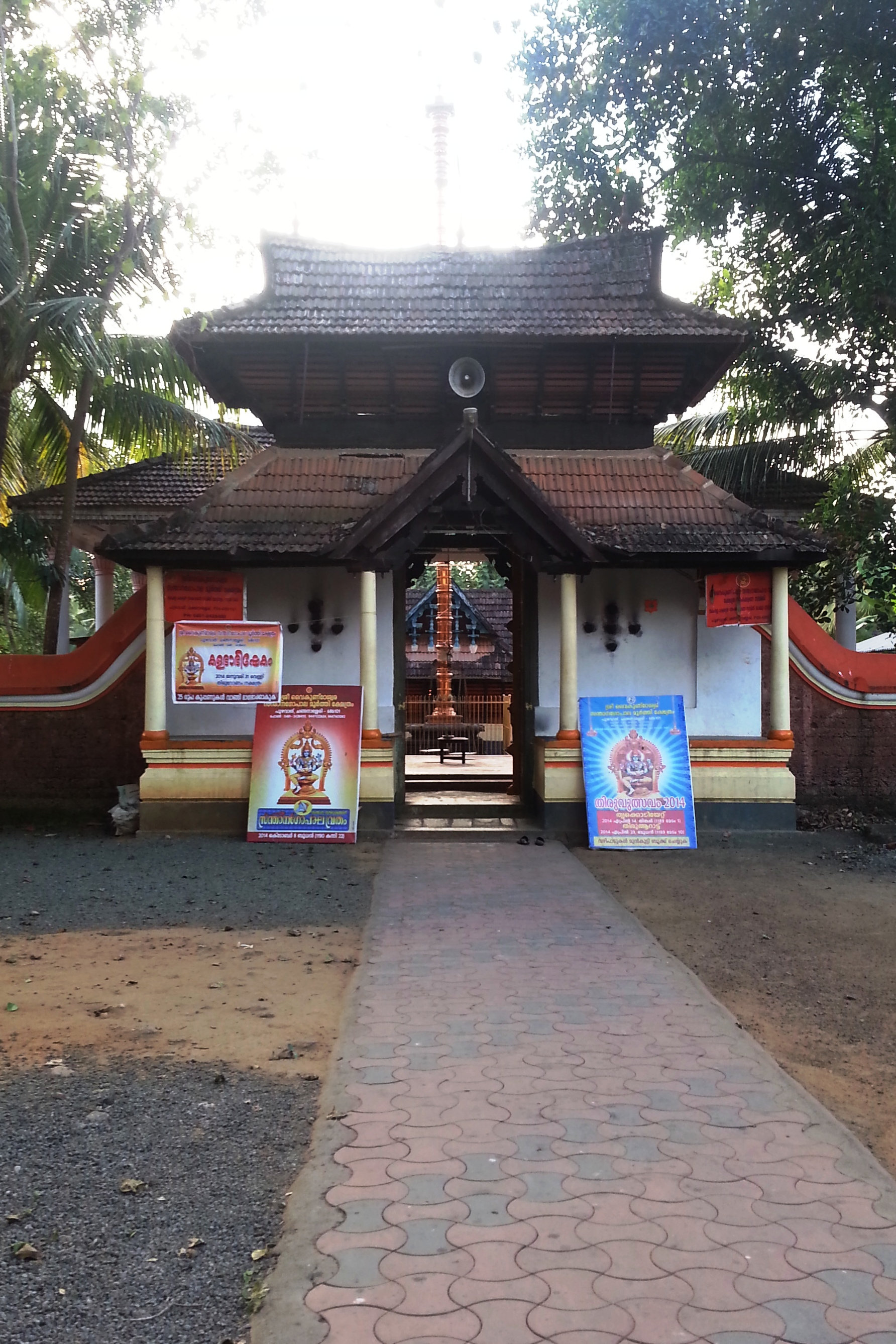 Puzhavathu Sree SanthanaGopala Temple - East Gopuram